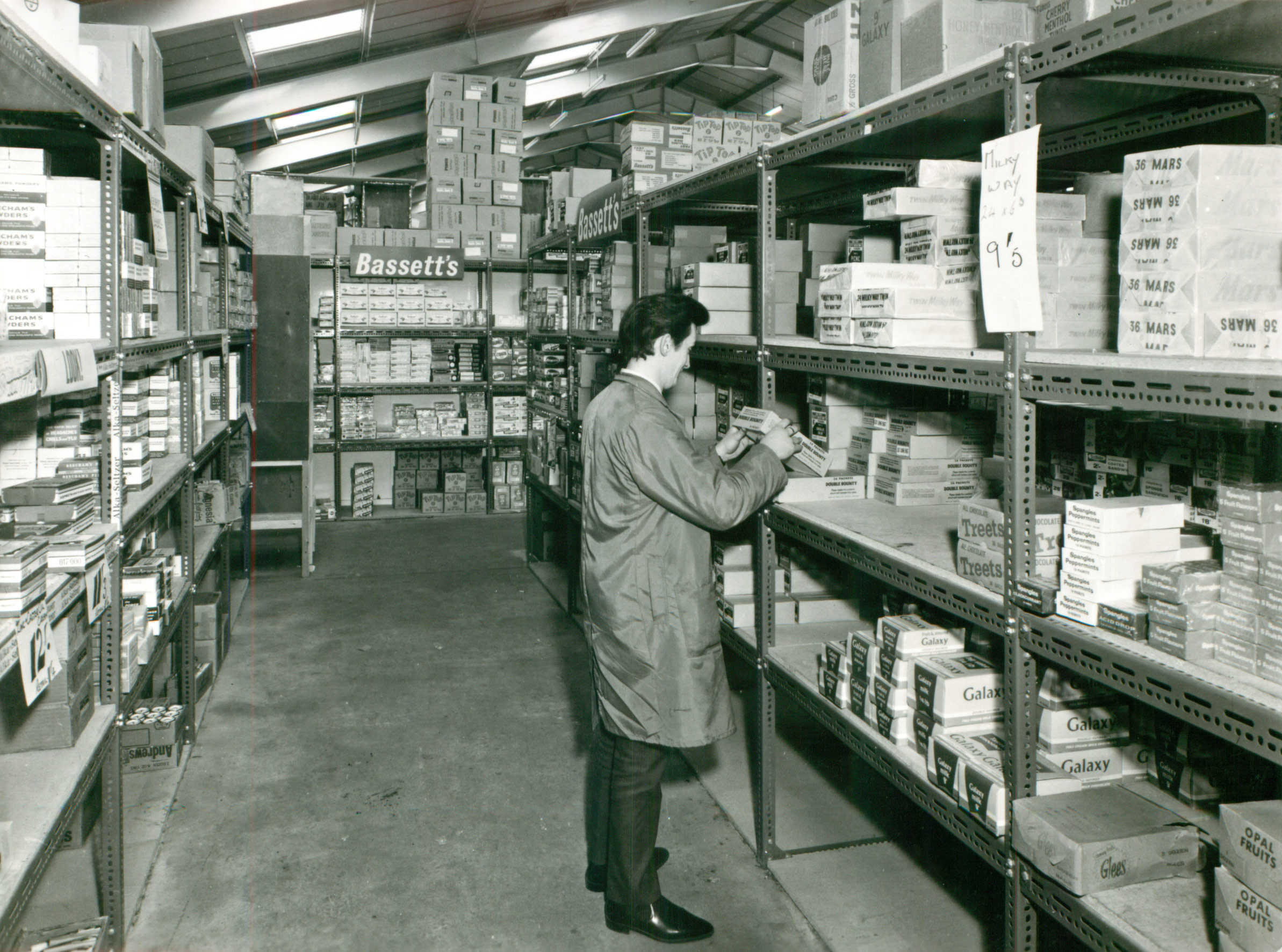 an old installation of Dexion Slotted Angle adjustable shelving